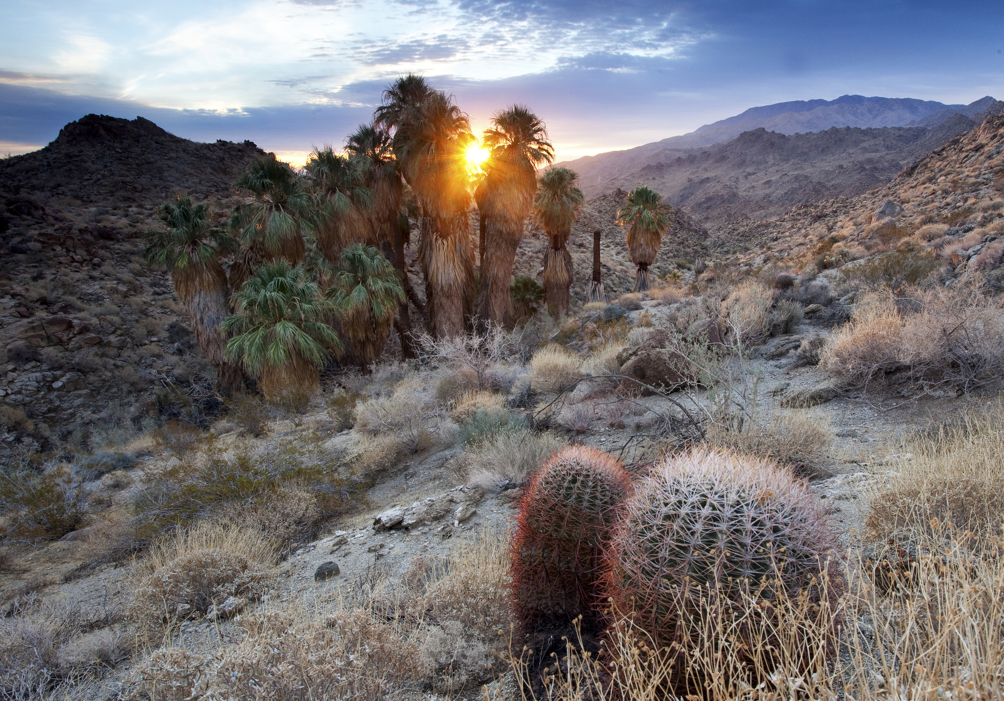 Rising abruptly from the desert floor, the Santa Rosa and San Jacinto Mountains National Monument reaches an elevation of 10,834 feet at the summit of Mount San Jacinto. Providing a picturesque backdrop to local communities, the national monument significantly contributes to the Coachella Valley’s lure as a popular resort and retirement community. The 280,000 acre monument is known as a great backcountry destination, with beautiful views and solitude from its readily-accessible trails. The monument also provides unique desert experiences for visitors, like nighttime “scorpion hunts” and dune discovery. The BLM California manages four of the 21 national monuments within the BLM’s National Conservation Lands. These national monuments encompass landscapes of tremendous beauty and diversity, from rugged California coastline to vividly-hued desert canyons. CLICK HERE to learn more. Photo by Bob Wick, BLM